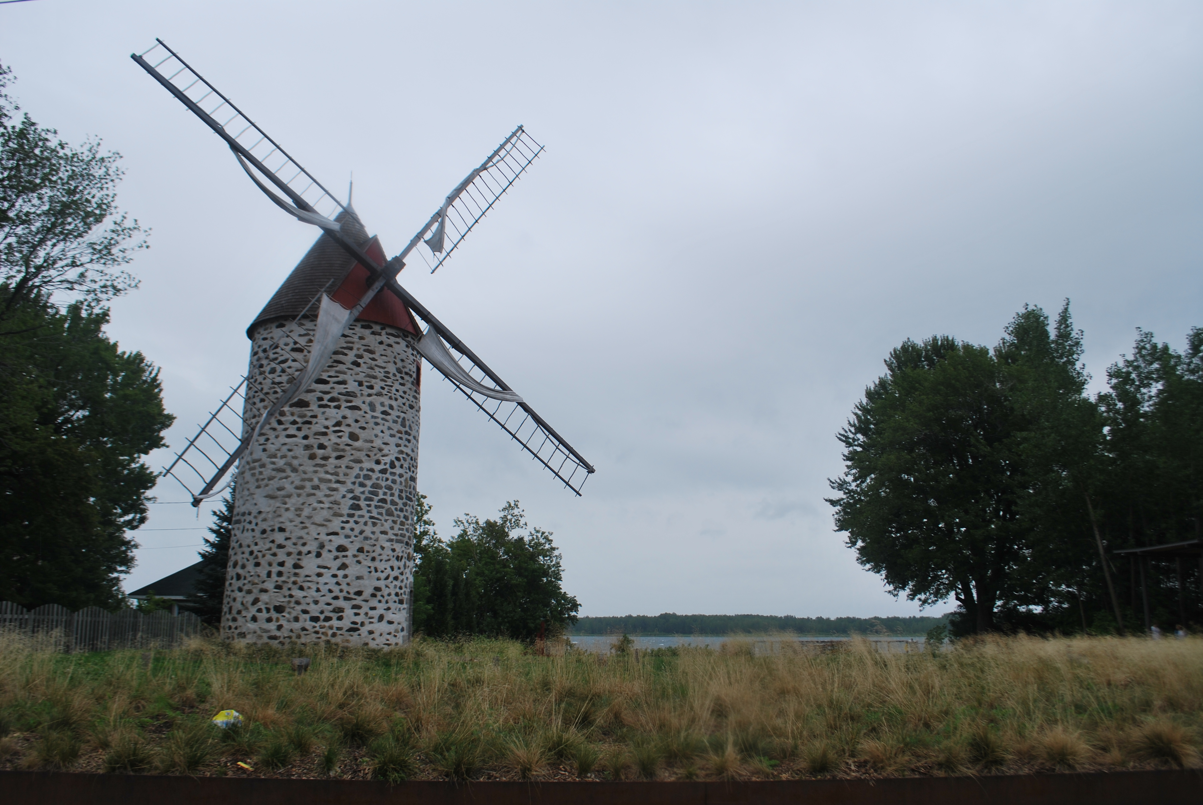 Moulin à vent de Pointe-aux-Trembles in Montréal.